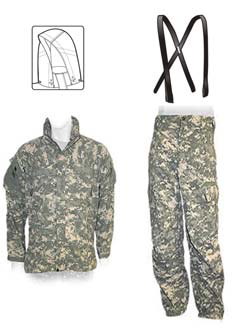 ECWCS III level 5